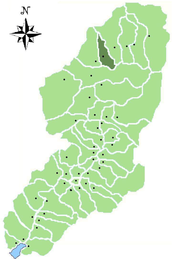 Map of the Comune di Incudine, Valle Camonica